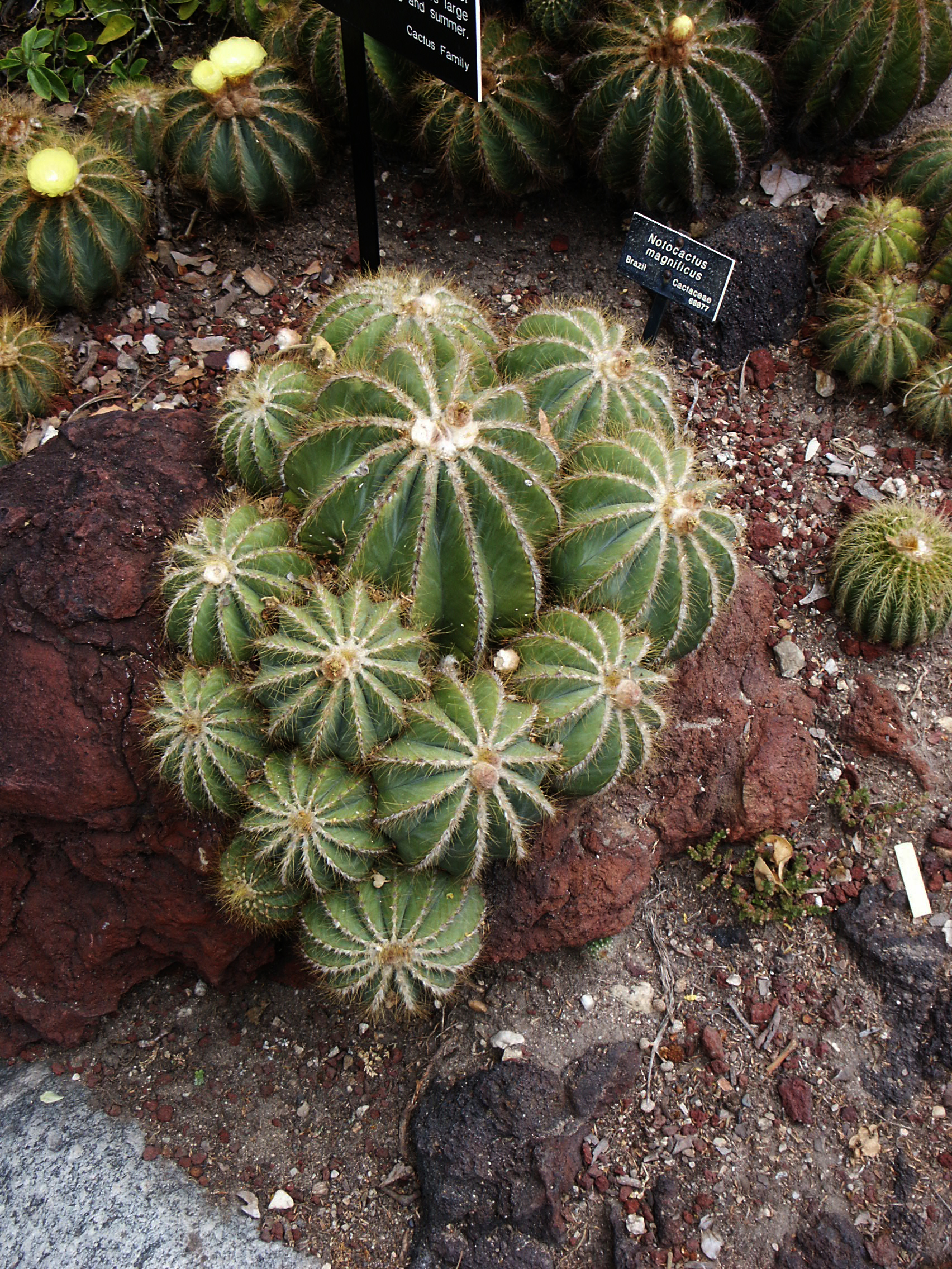 Parodia magnifica, (syn.Notocactus Magnificus), Huntington Library Desert Garden May 2009